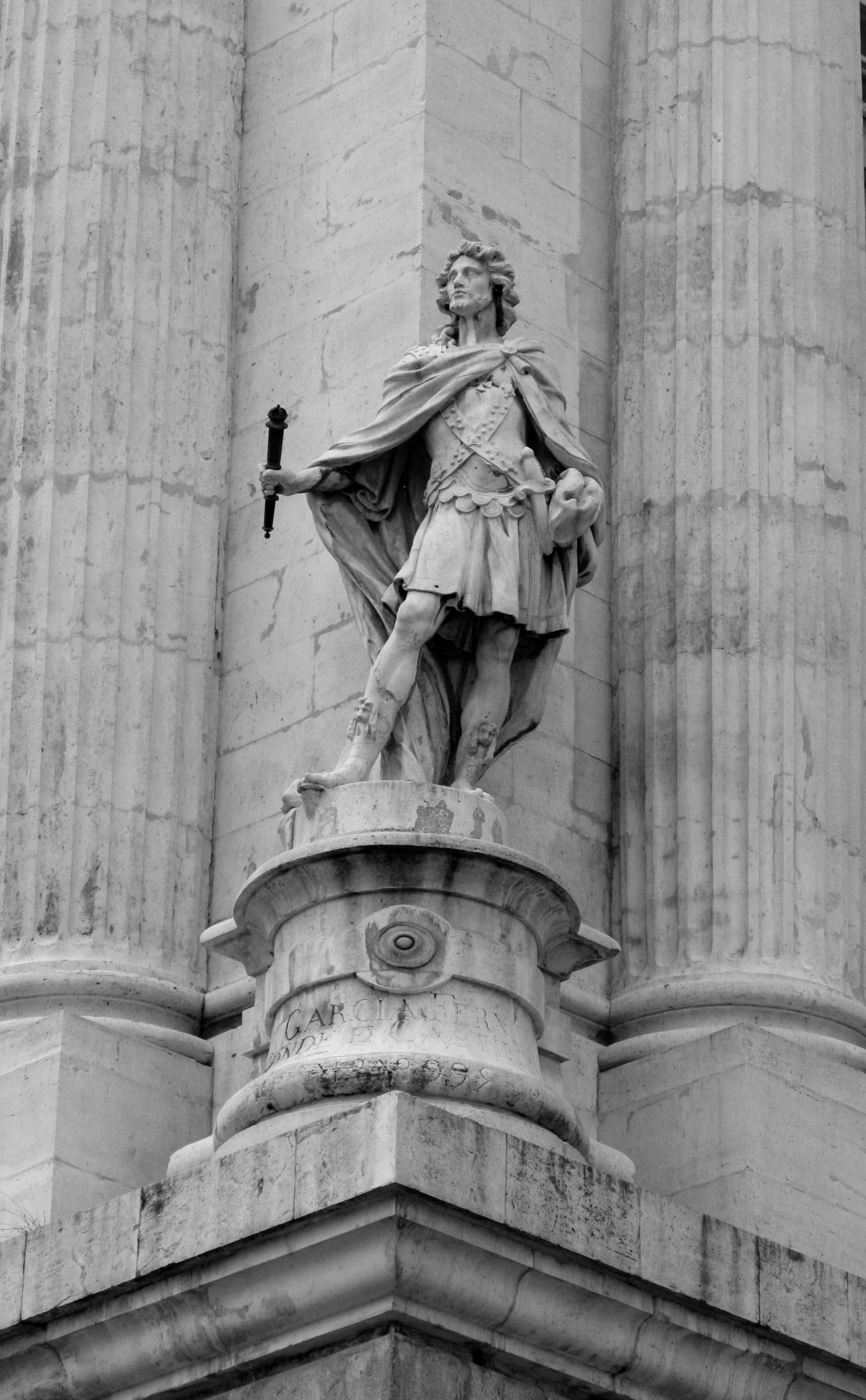 Statue of Rechiar (Requiario), Suebic King of Galicia from 448 to 456, on the façade of the Royal Palace of Madrid, Spain. (The inscription on the plinth which identifies the statue as that of García I of Castile is erroneous.) It is part of a collection sculpted in white stone between 1750 and 1753.